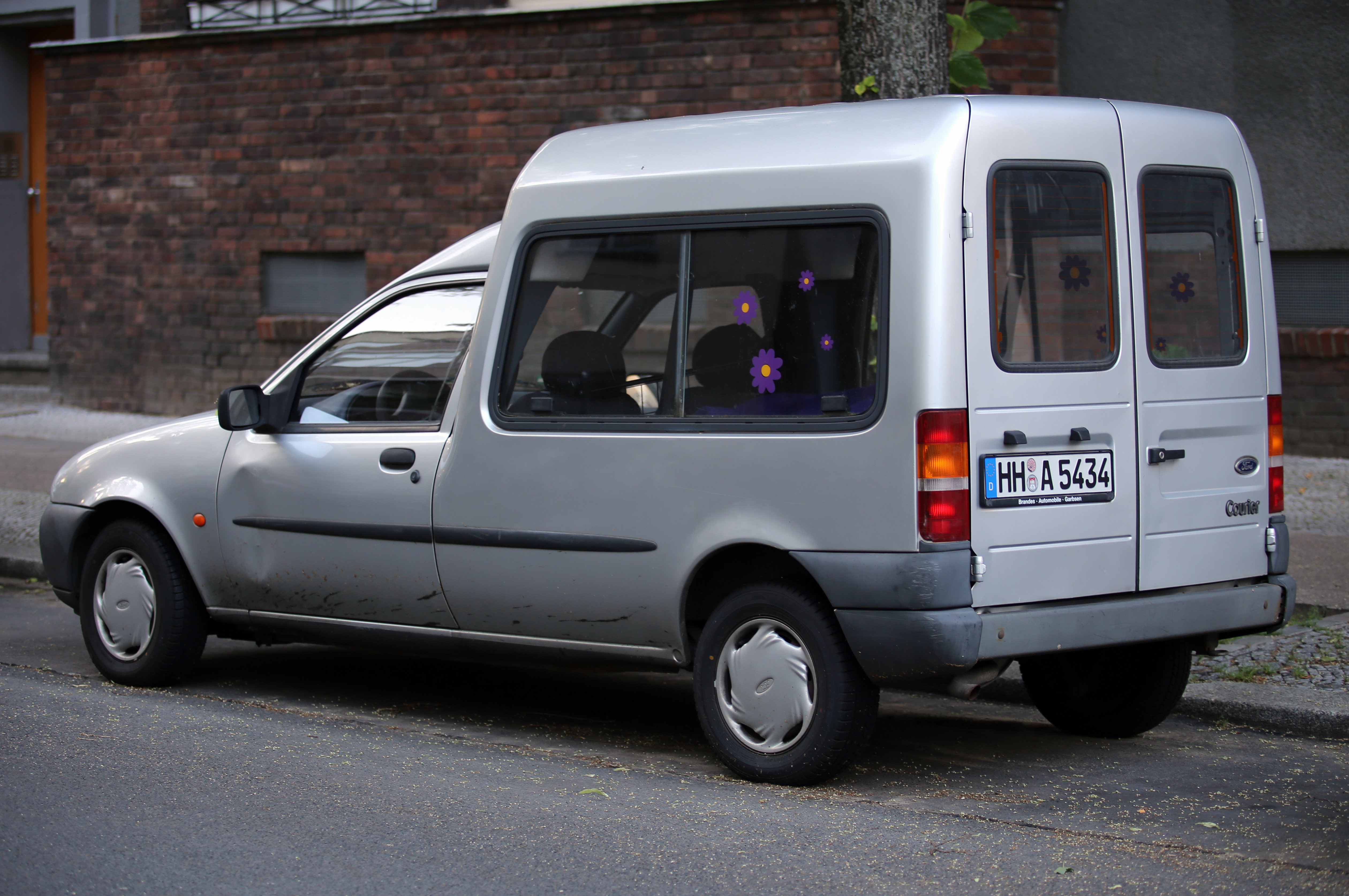 1996-1999 Ford Courier Combi, a version of this little van equipped with rear seats.